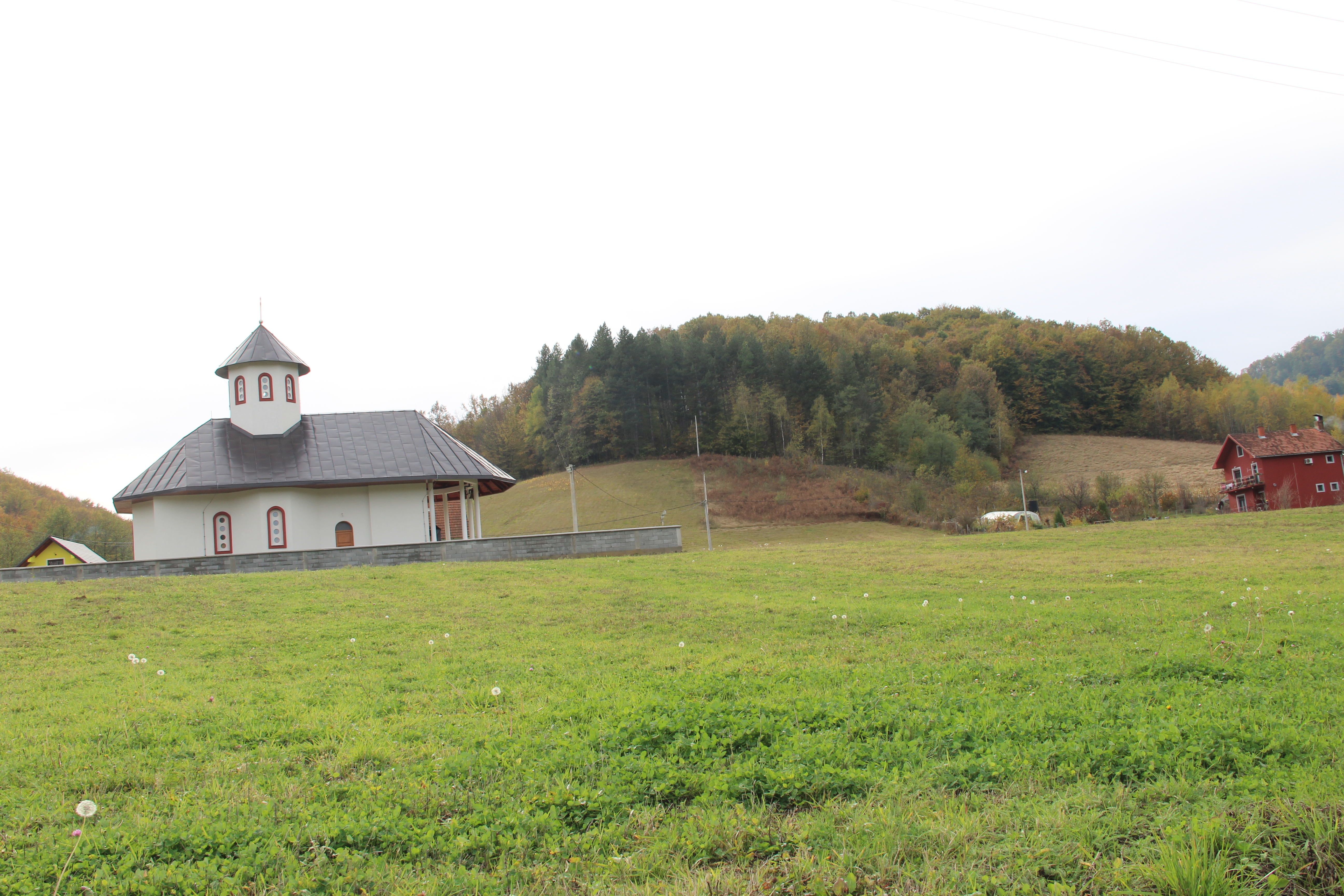 Dragijevica village - Municipality of Osecina - Western Serbia - Local church